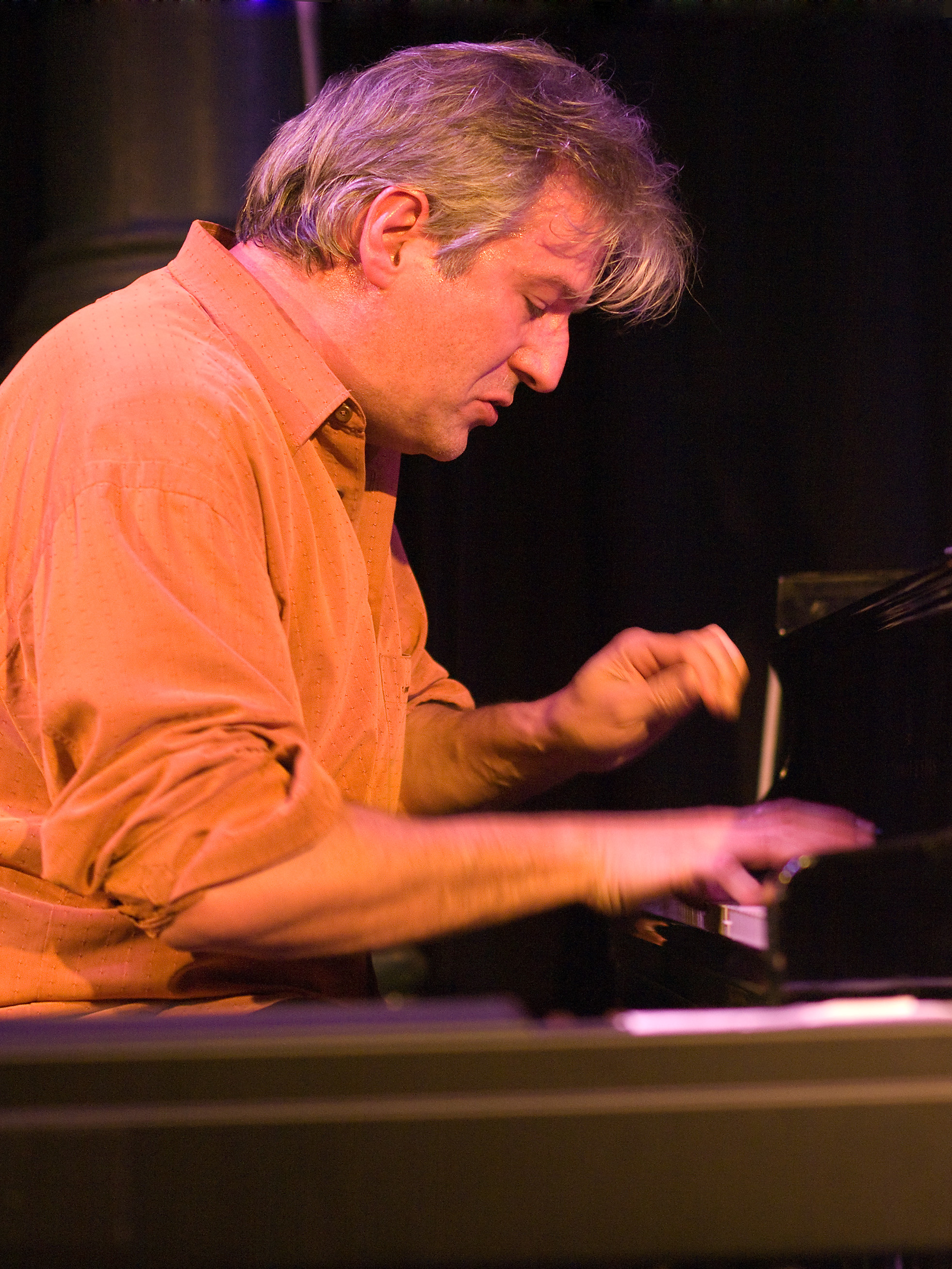 Hans Lüdemann, Jazz pianist, Picture taken in Jazz Club Unterfahrt Munich/Bavaria